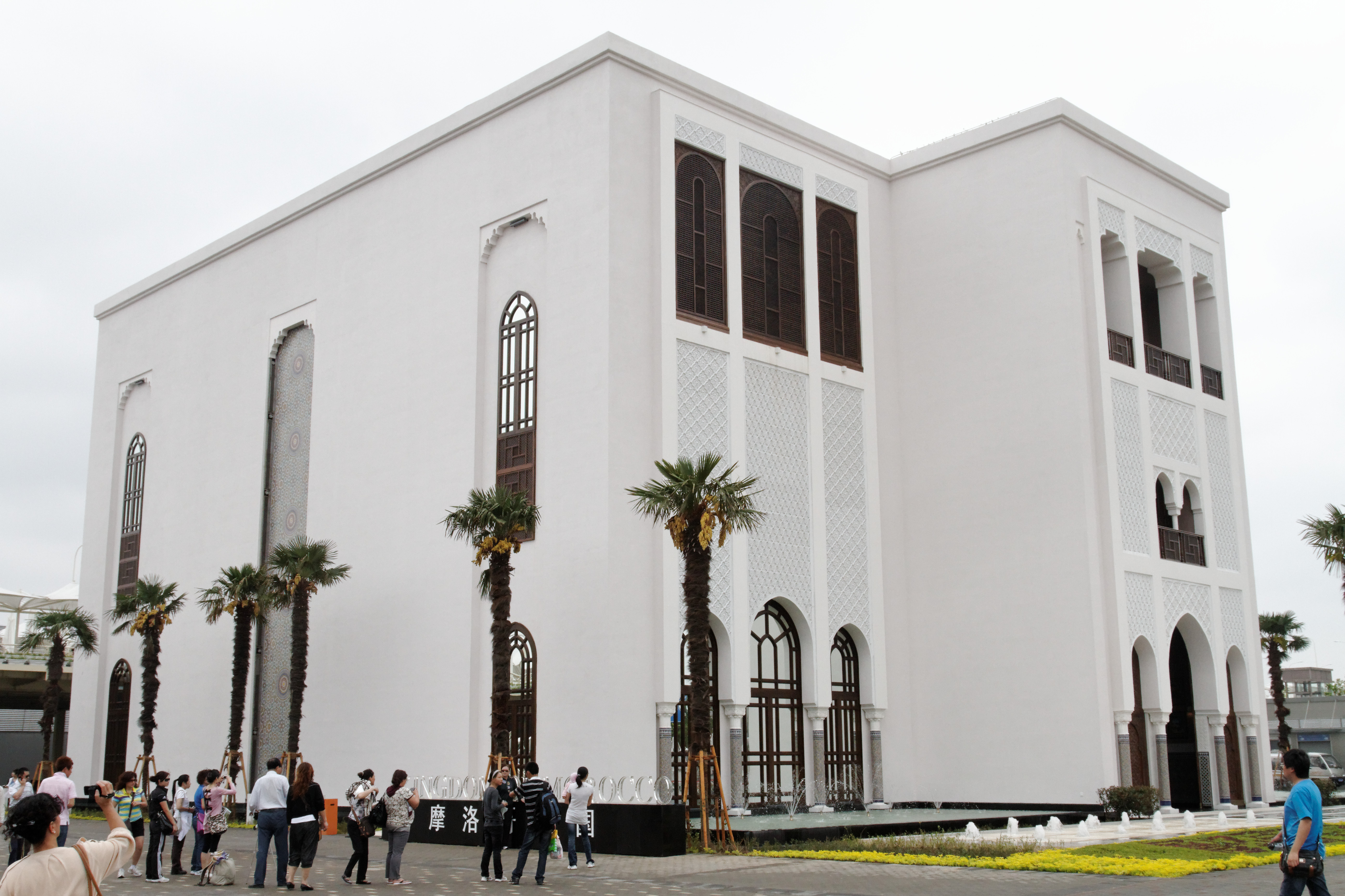 Morocco Pavilion of Expo 2010